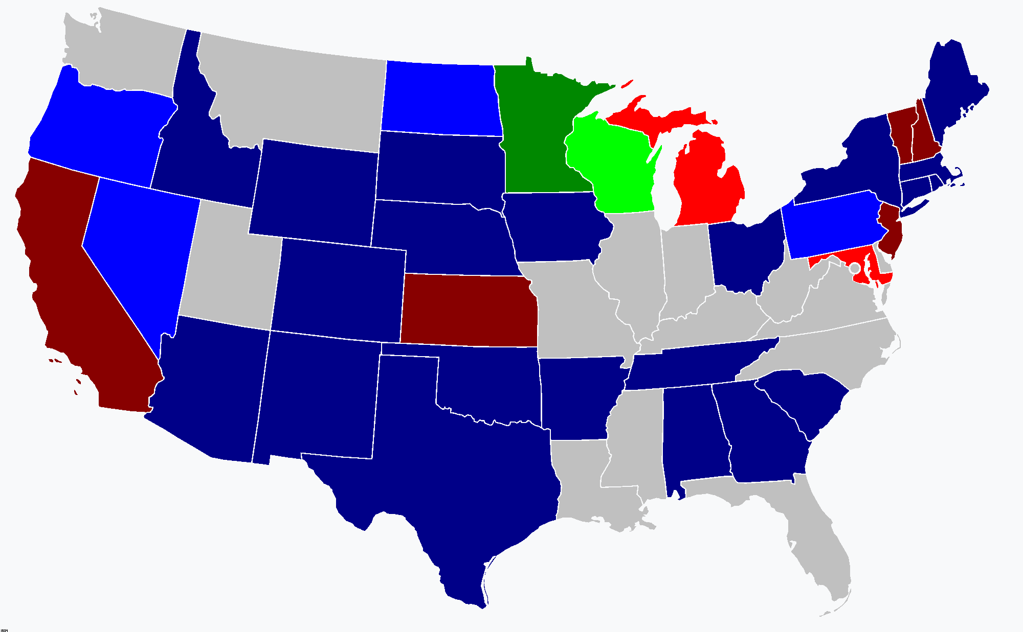 A map showing the results of the 1934 United States Gubernatorial elections